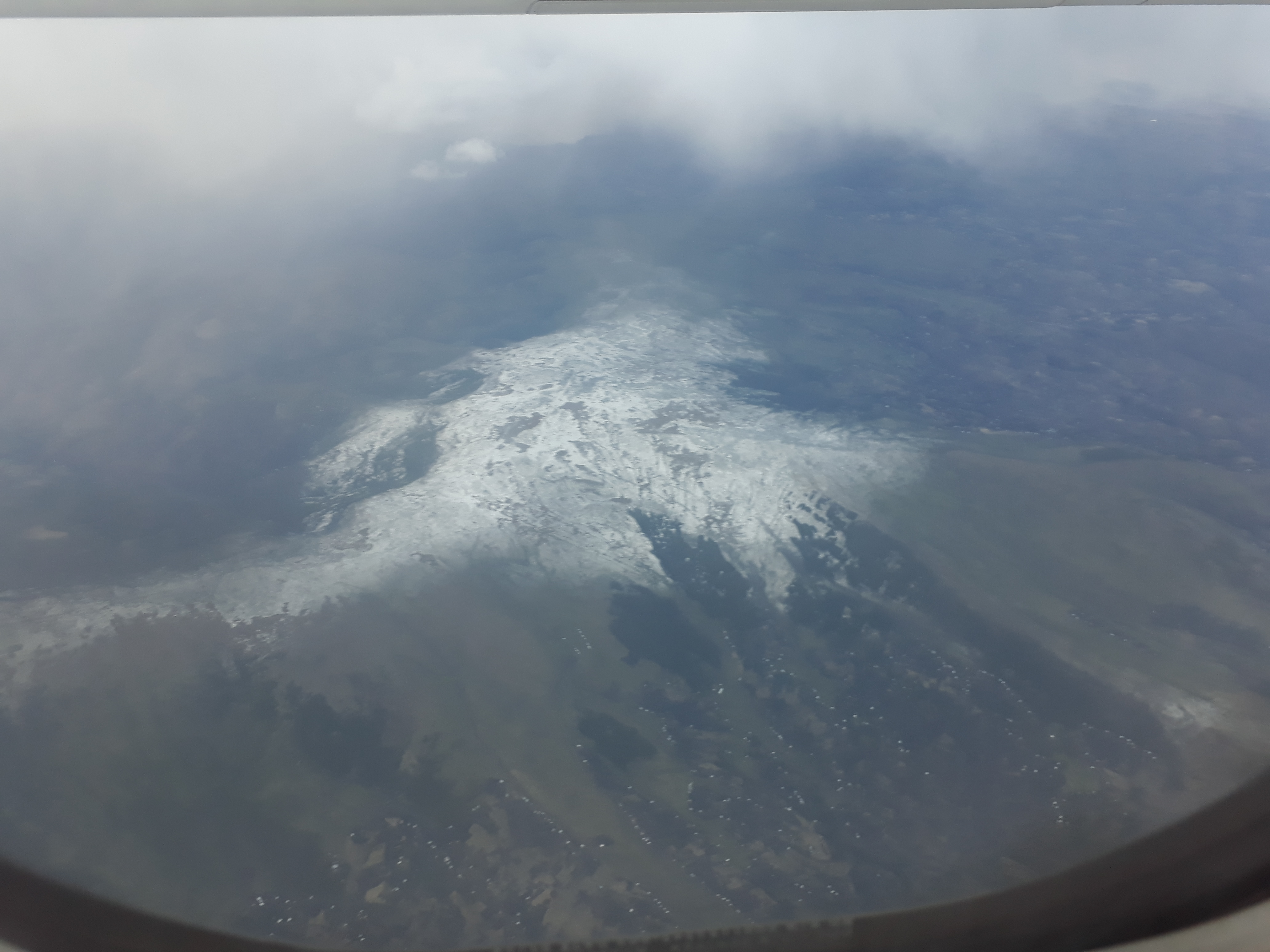 View on Mt Chokwe with snow